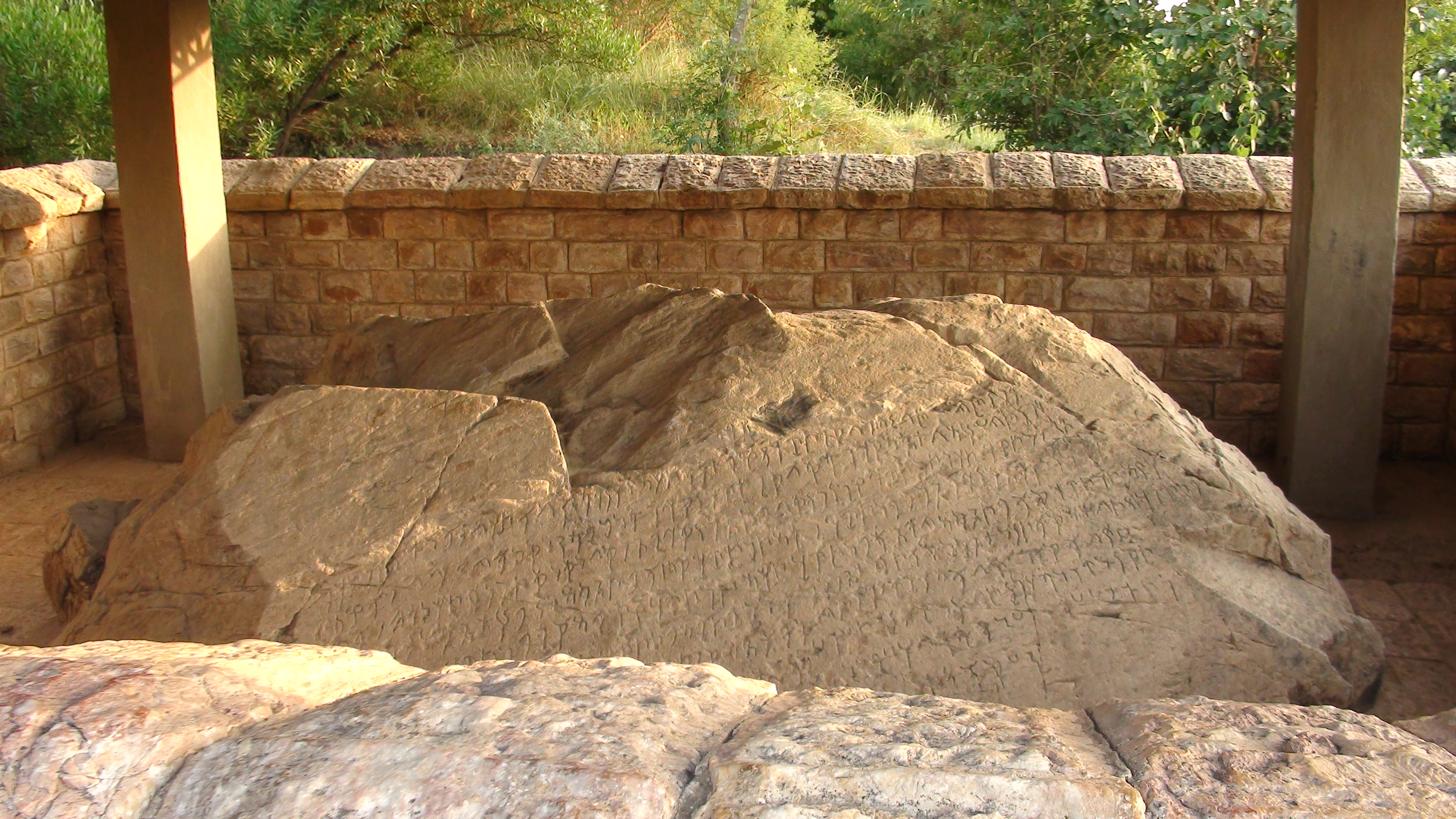 Fourteen rock edicts of Ashoka inscribed on two rocks in Shahbazgarhi This is a photo of a monument in Pakistan identified as the KPK-33